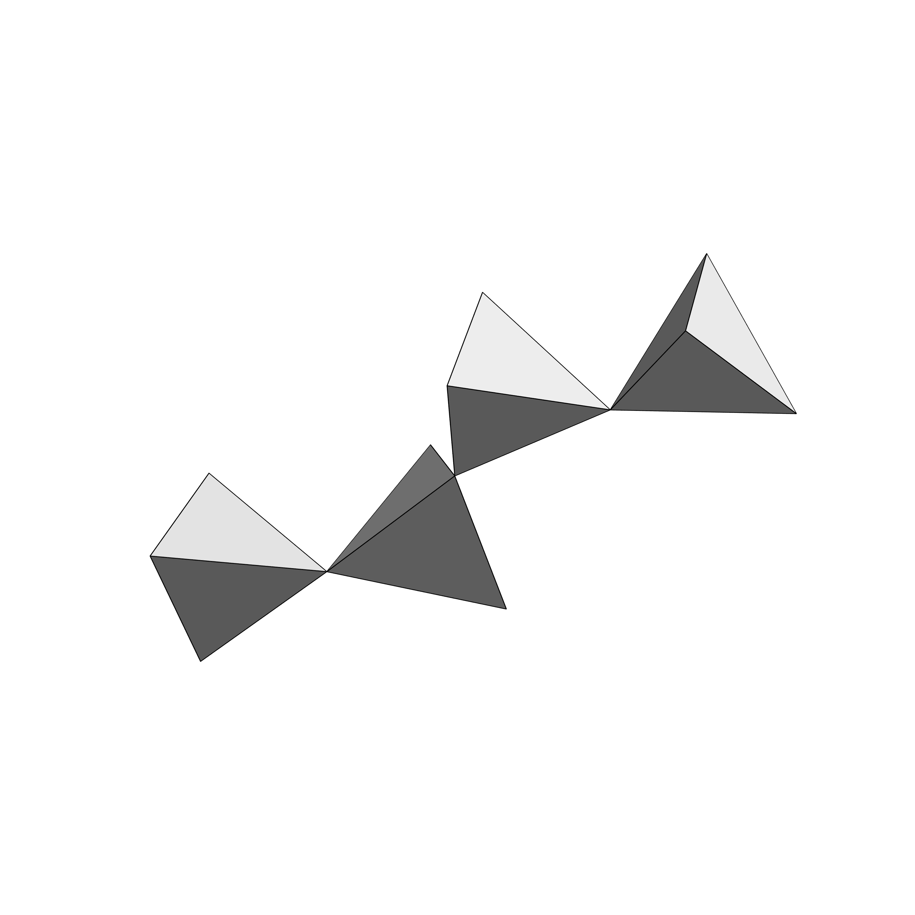 Unbranched 4er single silicate group of Akatoreite Data from: Burns P. C., Hawthorne F. C. (1993): Edge-sharing MnO4 tetrahedra in the structure of akatoreite, Mn9Al2Si8O24(OH)8, The Canadian Mineralogist 31, pp. 321-329 Calculation of image data: Larry W. Finger, Martin Kroeker, and Brian H. Toby, DRAWxtl, an open-source computer program to produce crystal-structure drawings, J. Applied Crystallography V40, pp. 188-192, 2007 Rendering: POVRAY